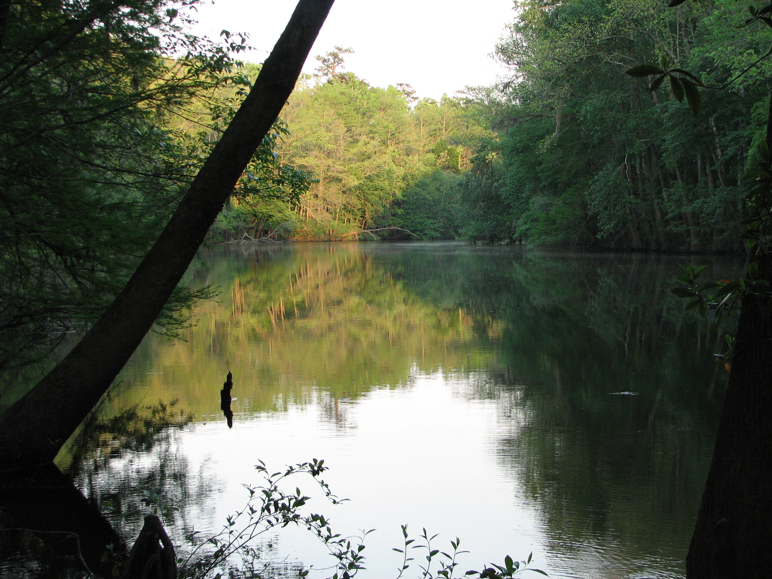 Weston Lake in Congaree National Park, South Carolina